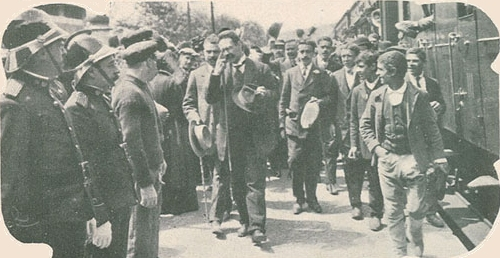 Arrival of the minister Brito Camacho to the Amadora Railway Station, for a visit to that town, on the 30th April 1911. This image was published on the Ilustração Portuguesa magazine No. 273, of the 15th May 1911, and scanned by the Hemeroteca Municipal de Lisboa.